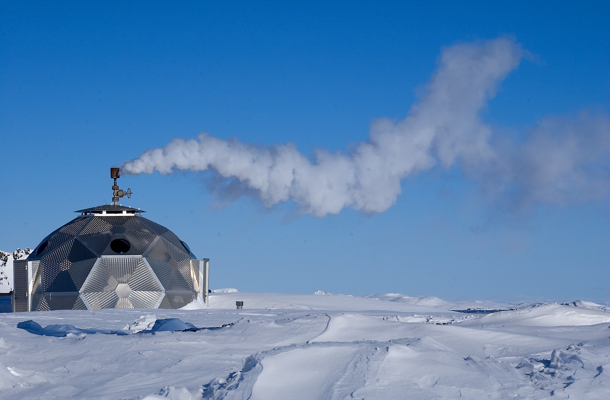 Geothermal borehole house in Iceland